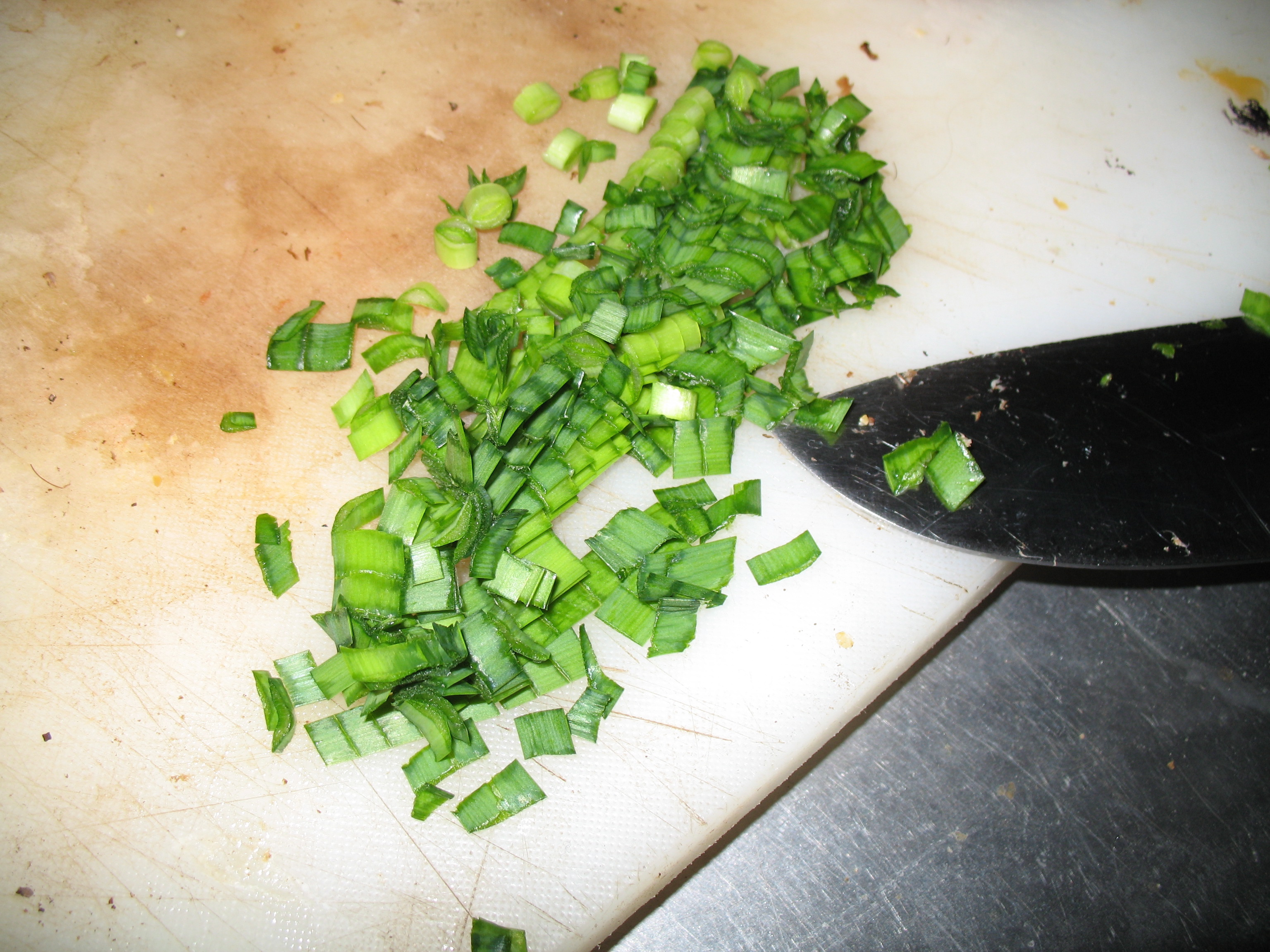 I think it's supposed to look something like this